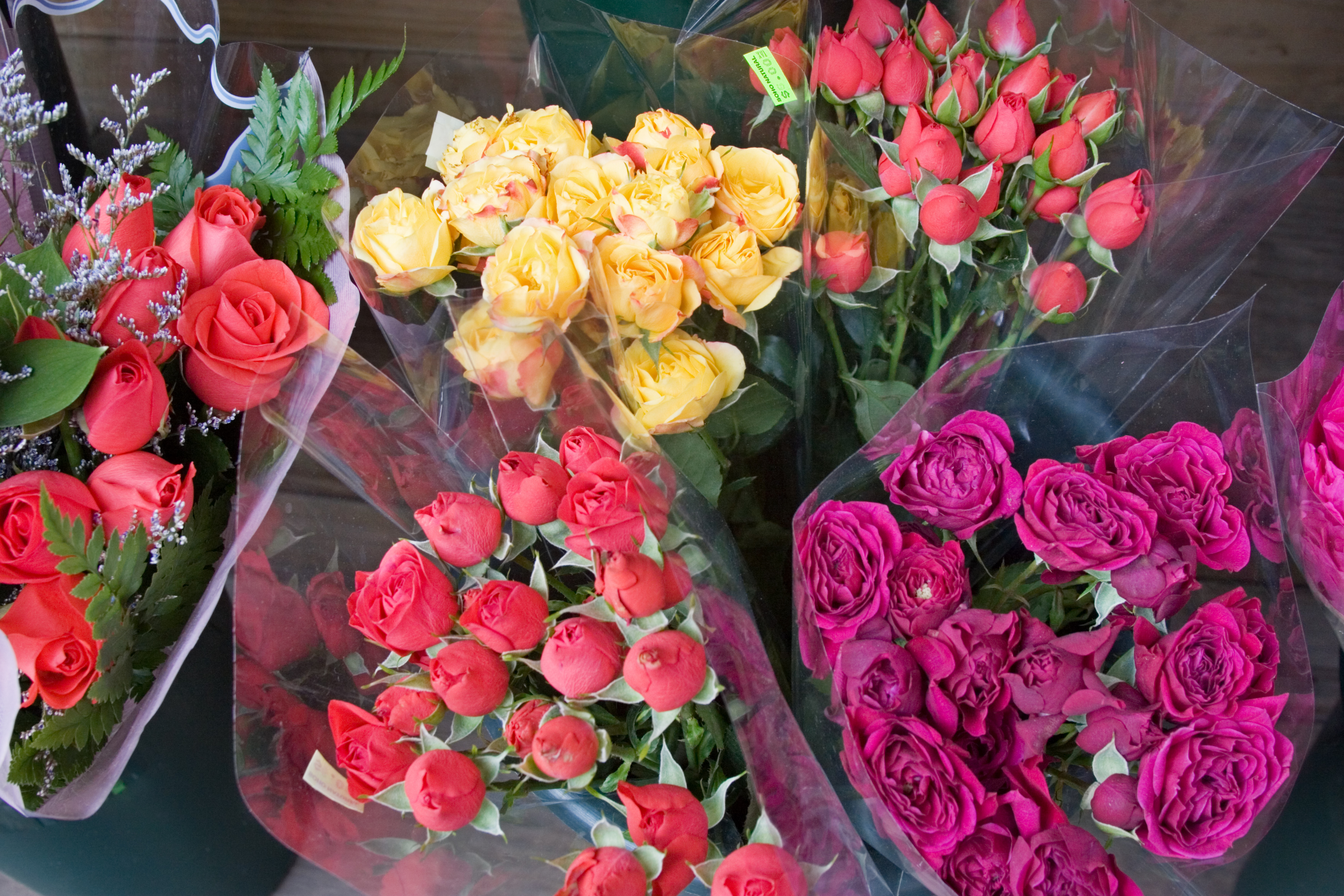 Roses in a Soho florist. New York City 2005